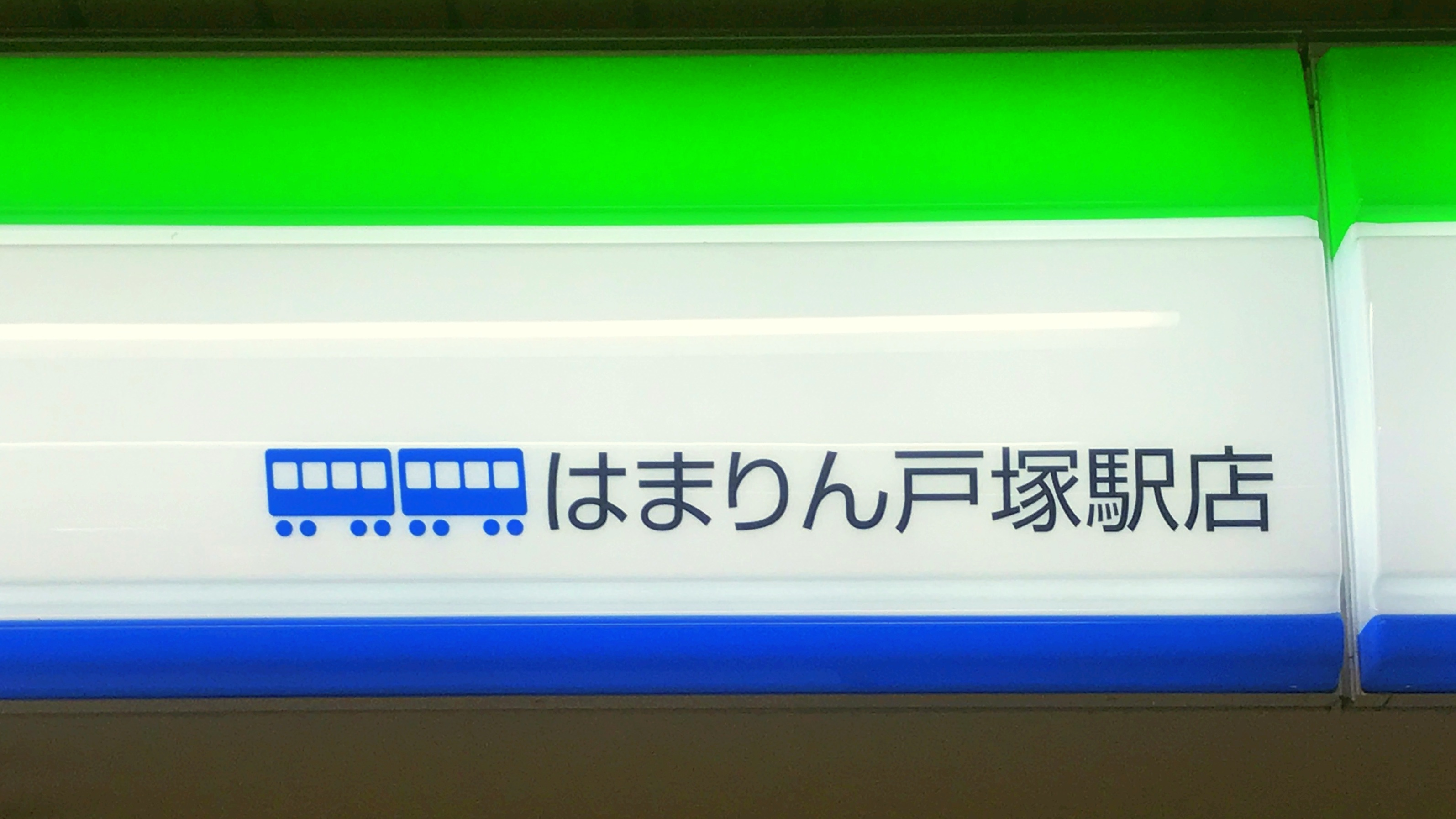 Sign board of Family Mart Tozuka station store. The train is drawn in front of the shop name.